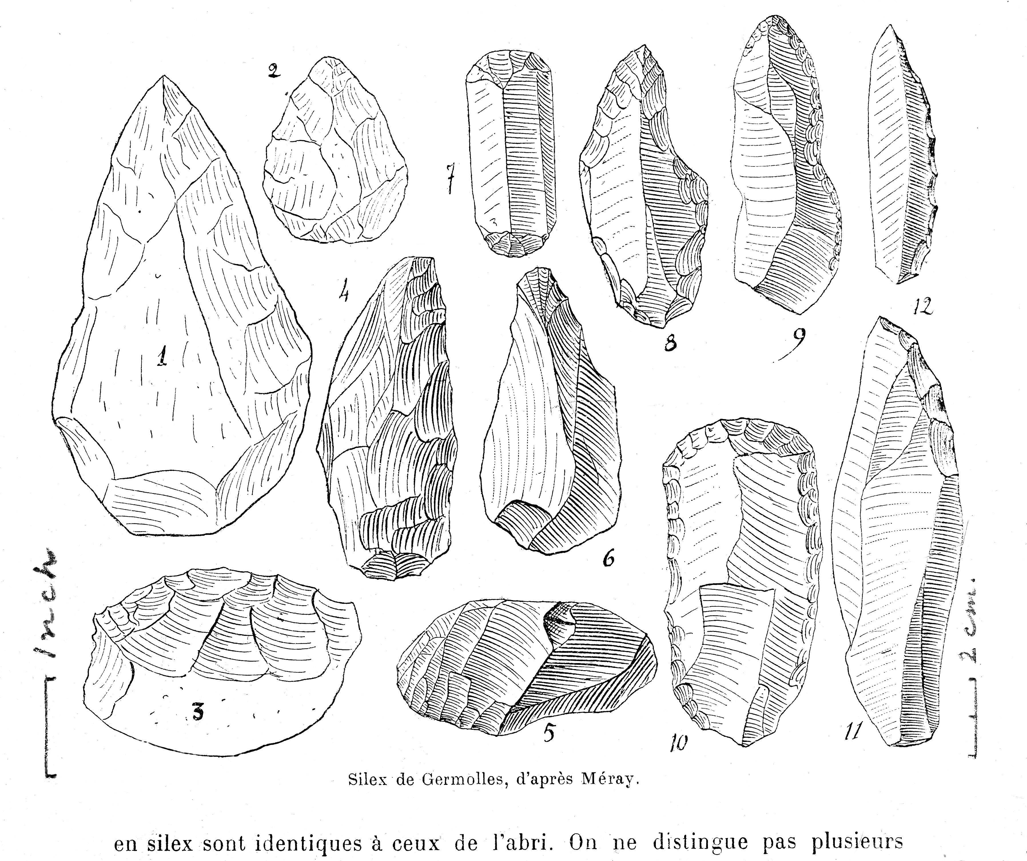 Flint artifacts from Germolles (Allier) Wellcome Images Keywords: prehistoric archaeology; paleolithic period; typology